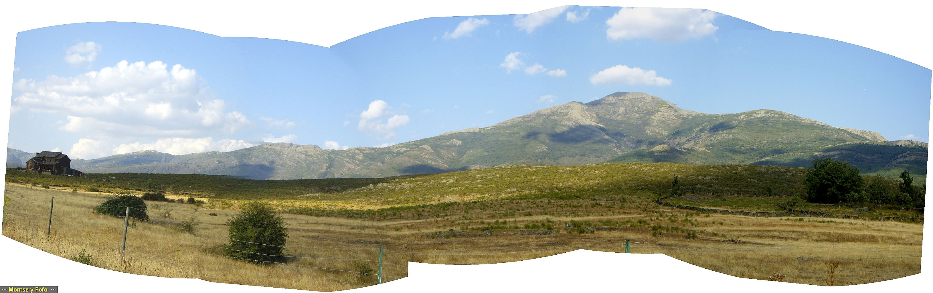 West face of the Ocejón peak (Ayllón mountains, Guadalajara, Spain).